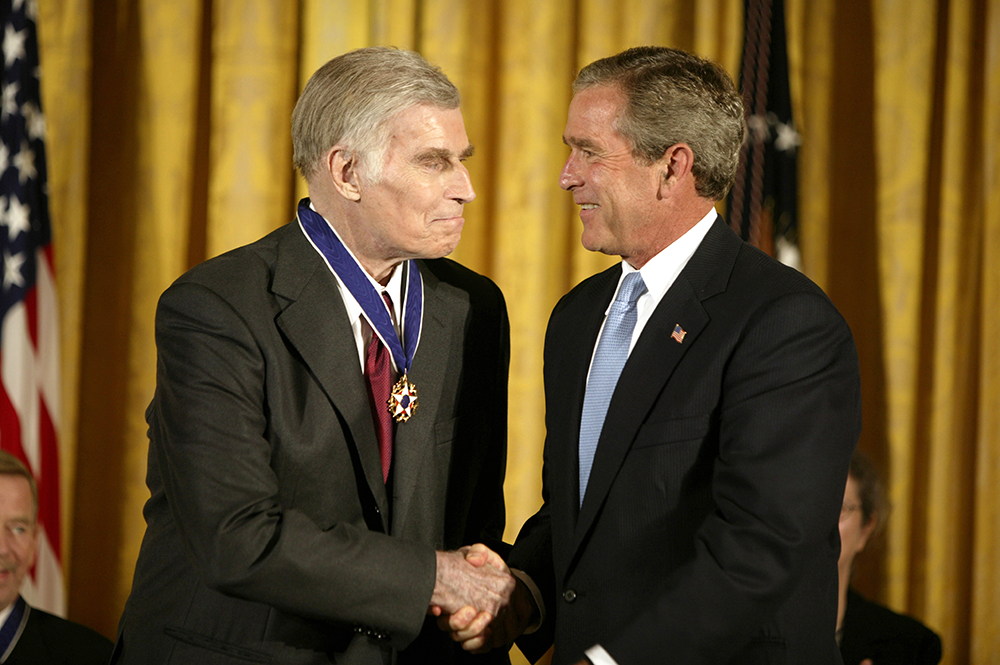 President George W. Bush presents the Presidential Medal of Freedom to Charlton Heston Wednesday, July 23, 2003, during ceremonies in the East Room of the White House. Photo by Paul Morse, Courtesy of the George W. Bush Presidential Library and Museum